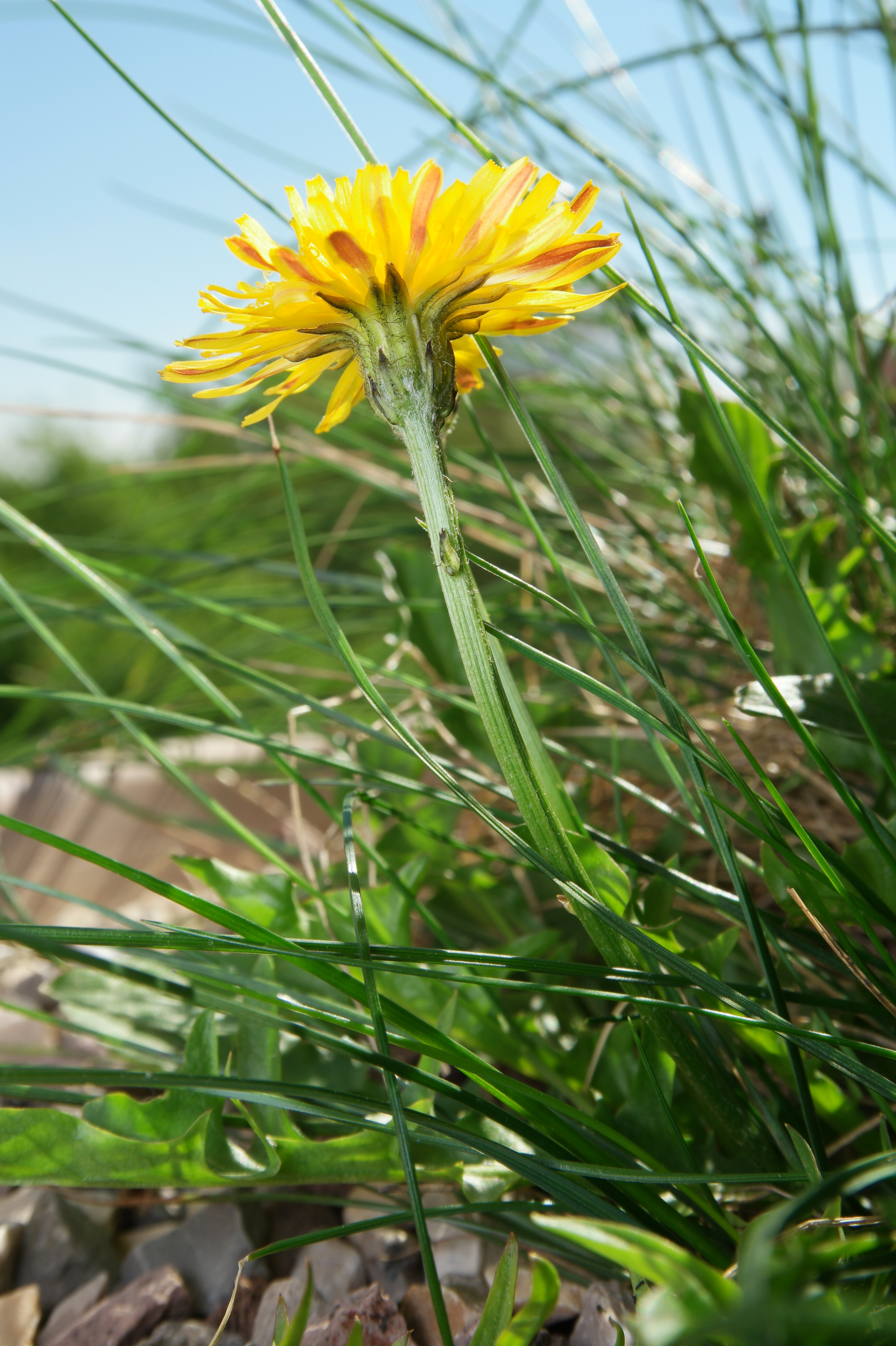 Crepis aurea subsp. glabrescens leg Pavle Cikovac subadriatic SE Dinaric alps from snow bed communities